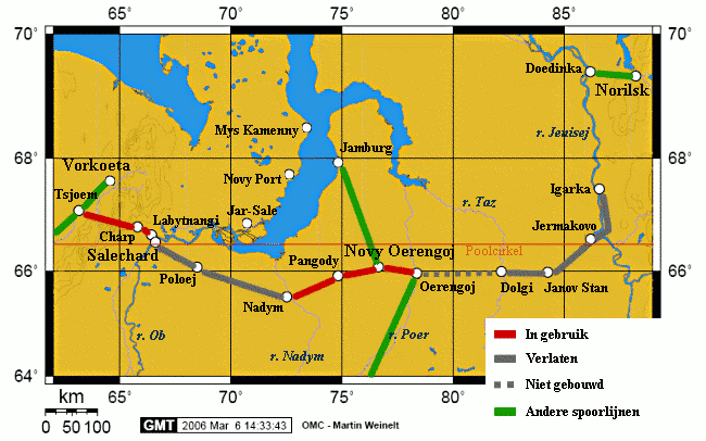 Map of the unfinished Russian railroad Transpolar magistral (names on Dutch Language). The Transpolar railway was planned by Stalin but was never finished due to the high costs and the fact that Stalin died during the construction.